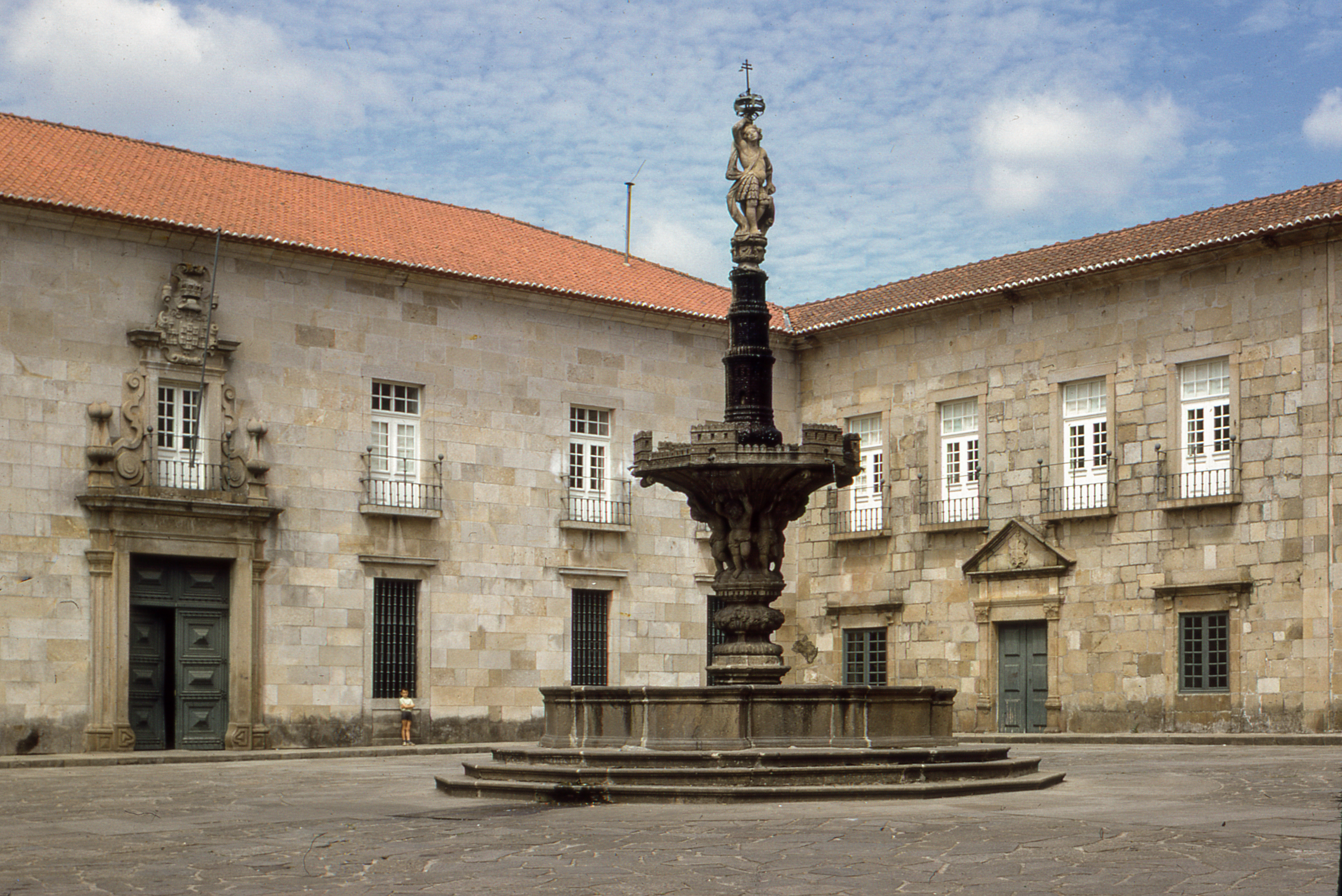 Archiepiscopal Court facing the Paço Square.